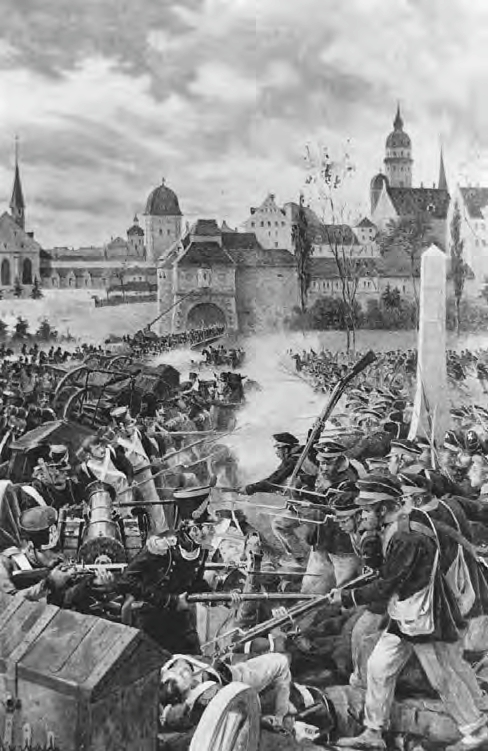 French infantry defend a barricade against a Prussian assault at the Battle of Leipzig, where overwhelming defeat forced Napoleon to abandon his control over Germany.